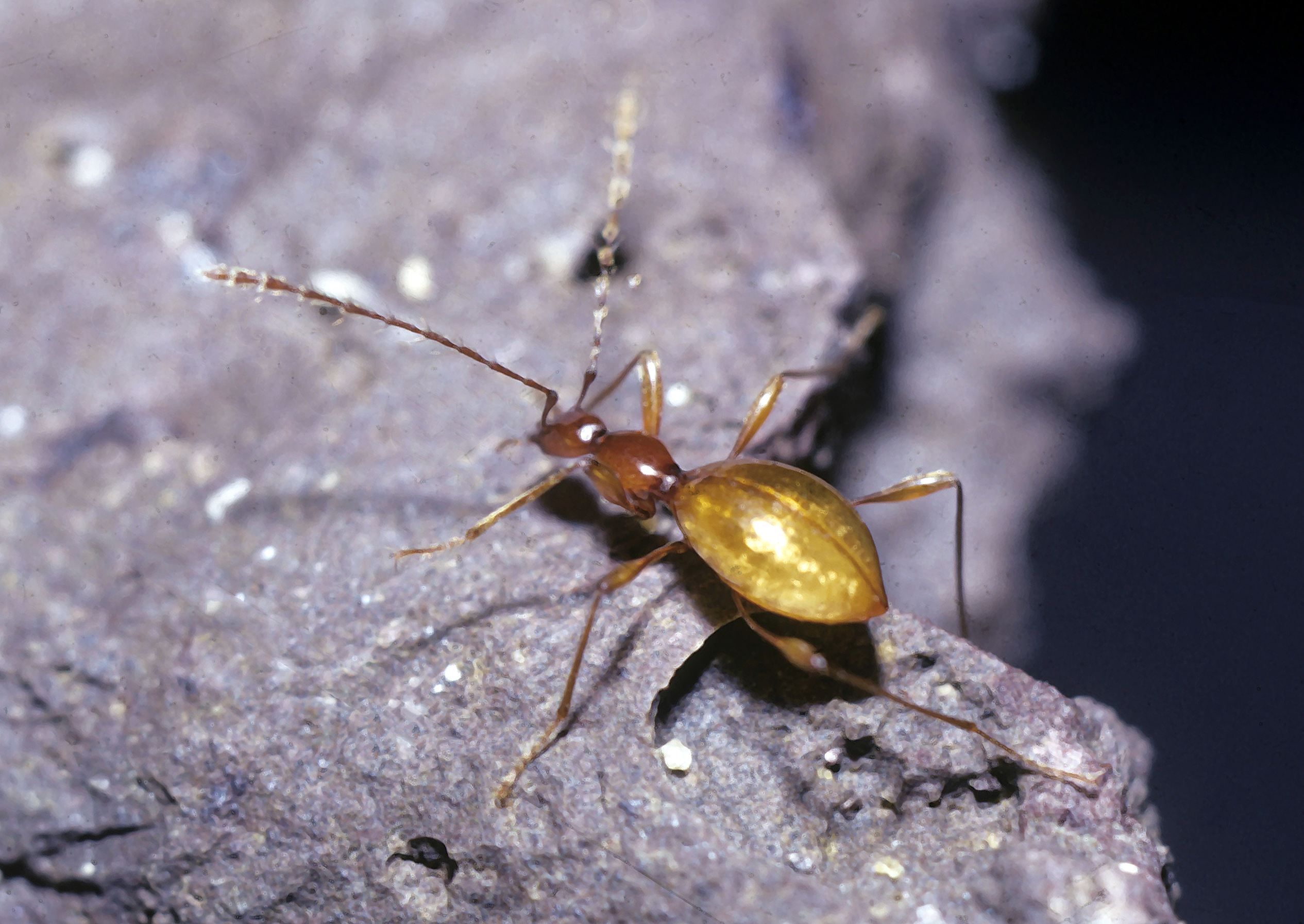 Western Blind Cave Beetle Glacicavicola bathysciodes in its natural habitat.